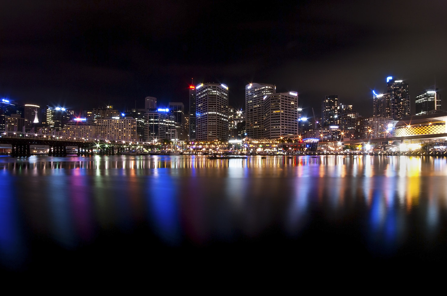 17/03/2012 A 92 sec exposure of Darling Harbour.